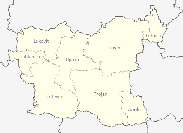 Croatian names on map of Lovech District (Bulgaria)